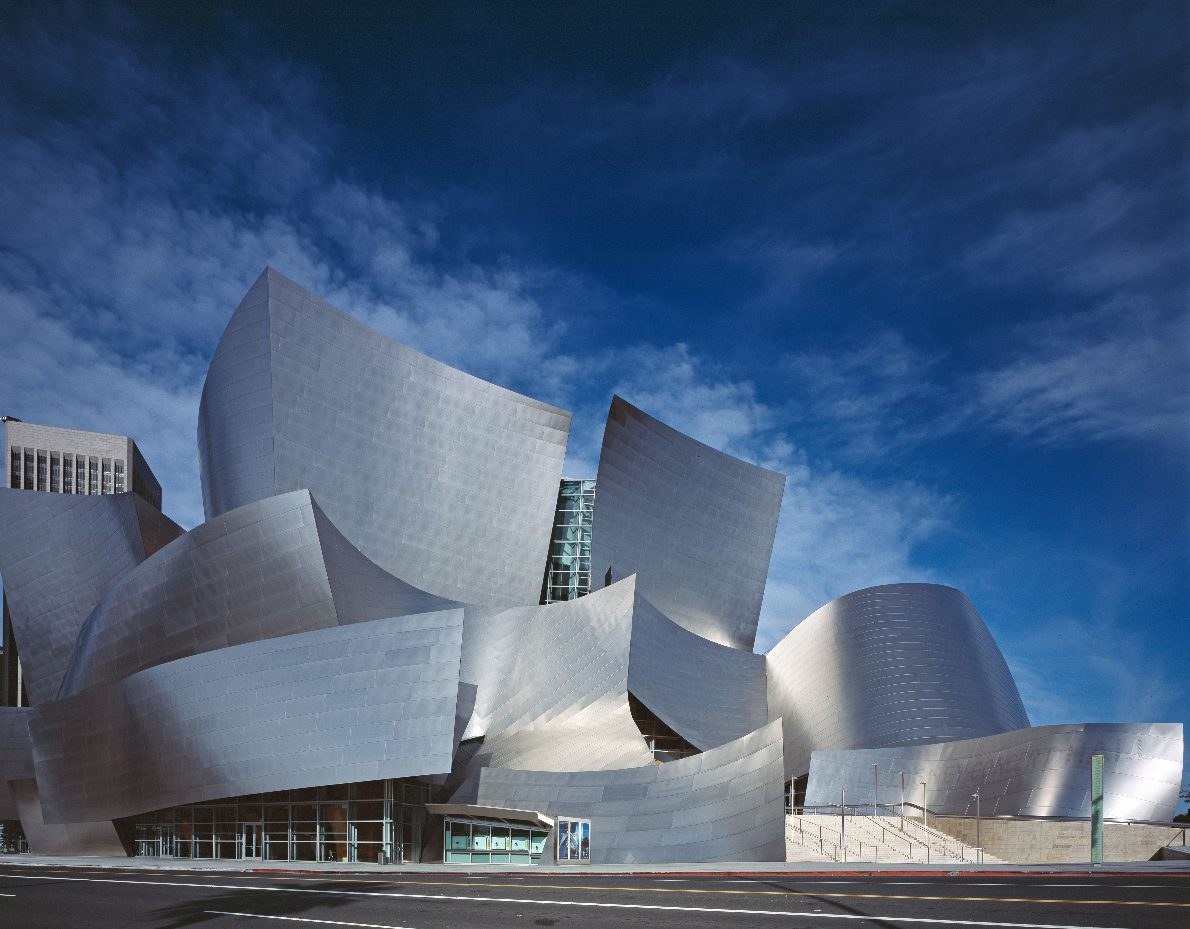 The Walt Disney Concert Hall, home to the Los Angeles Philharmonic, features an acoustically superior auditorium paneled in hardwood. The Disney family contributed more than $100 million to the project.